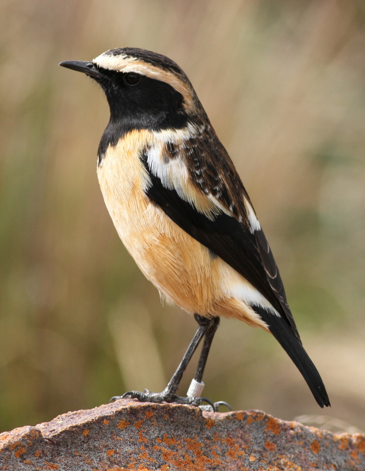 Buff-streaked Chat, Buff-streaked Bushchat, Campicoloides bifasciatus (male) at Marakele National Park, South Africa